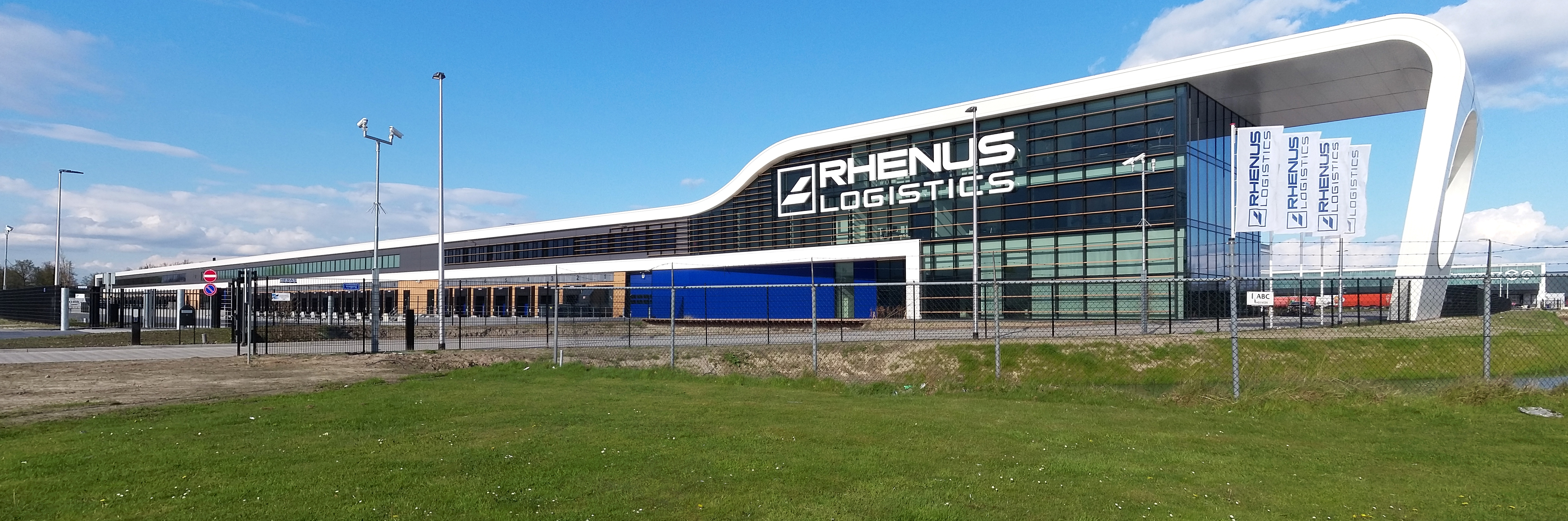 Distribution center of Rhenus Logistics in Ekkersrijt, Son en Breugel, Netherlands